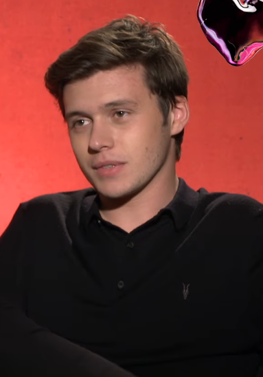 Nick Robinson in an interview in 2018